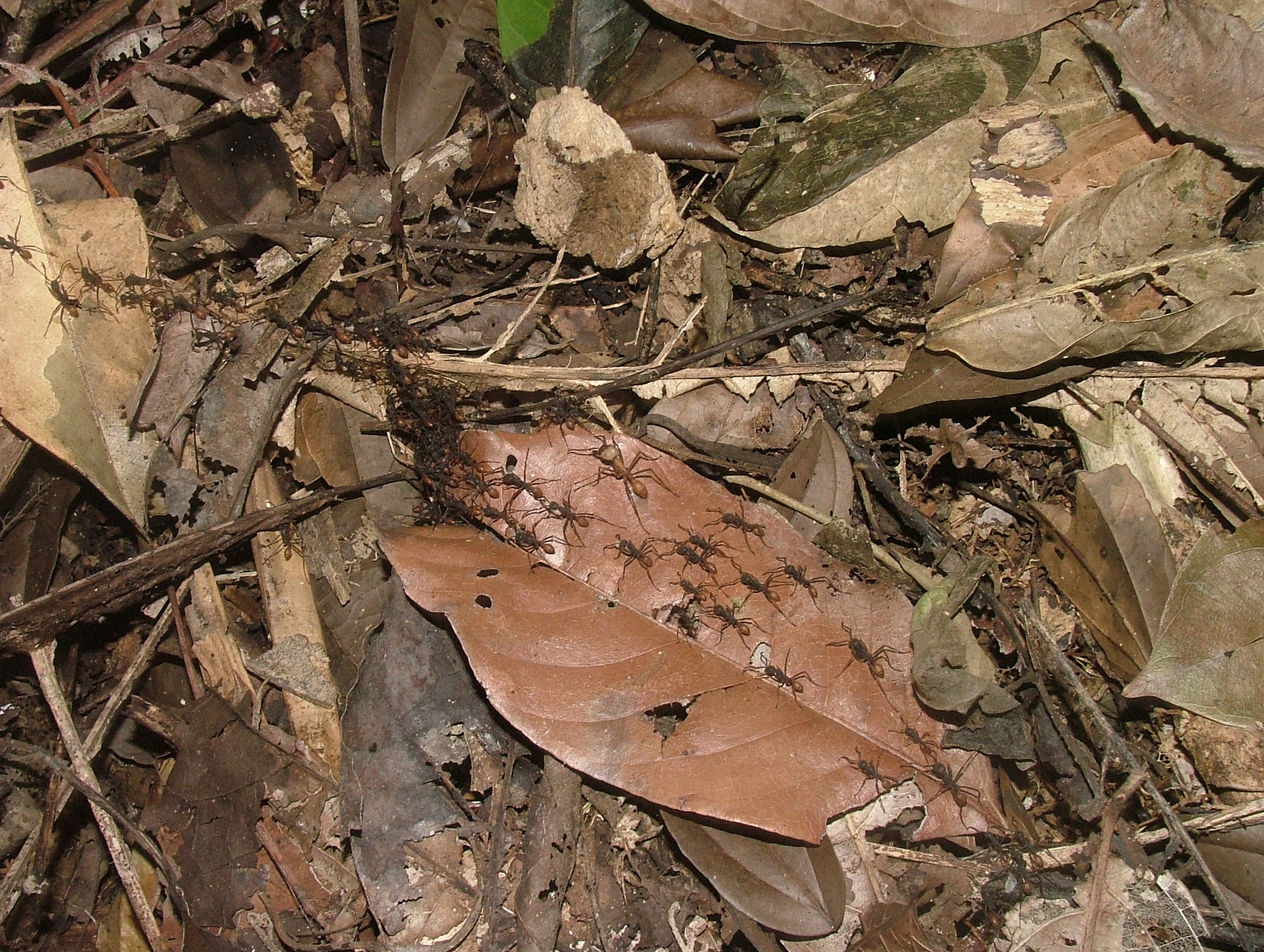 A photograph of a trail of Eciton burchellii army ants. Taken on Barro Colorado Island Panama